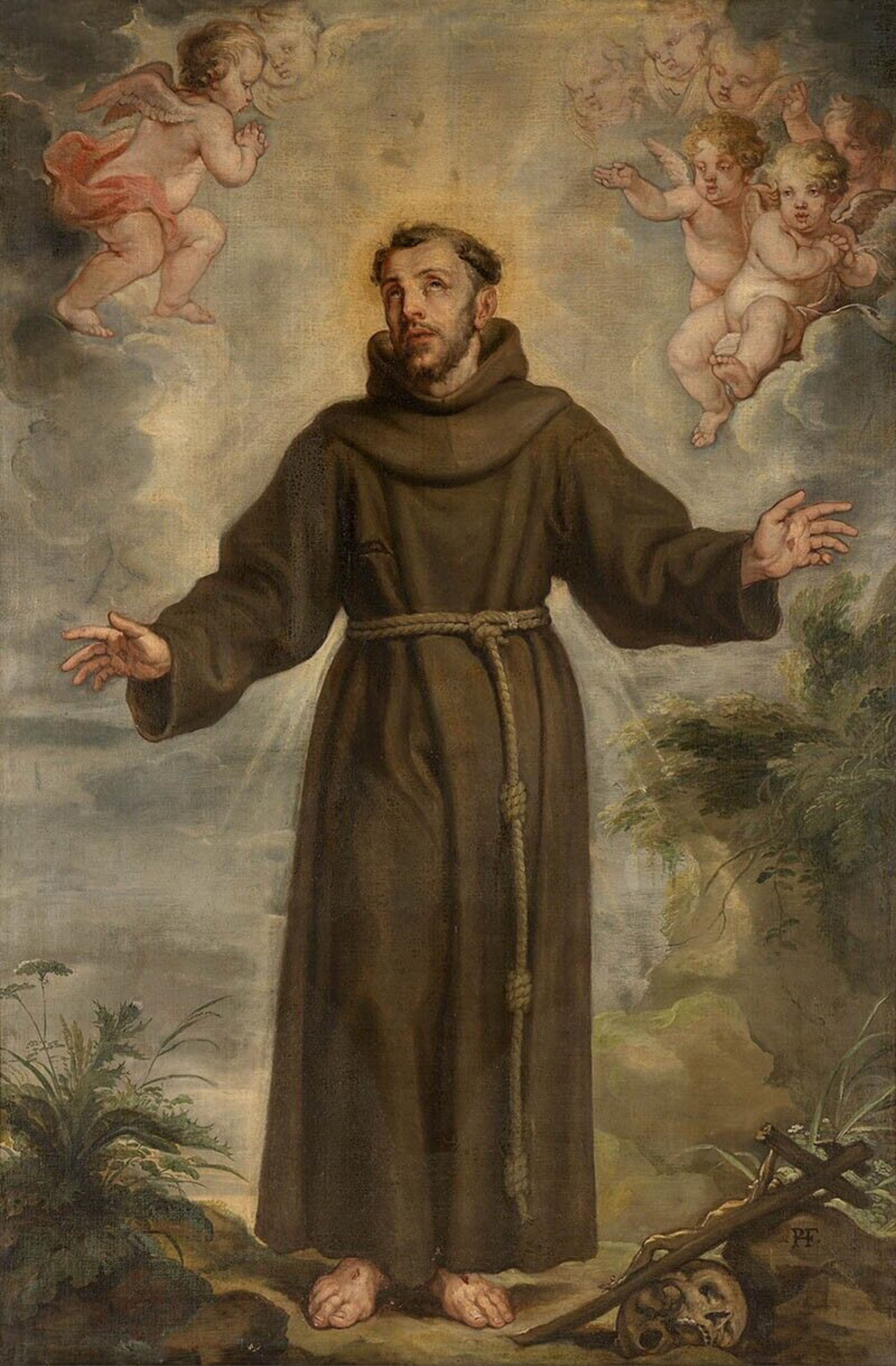 Philip Fruytiers, St. Francis of Assisi, oil on canvas, 259.5 x 169.3 cm, Royal Museum of Fine Arts Antwerp